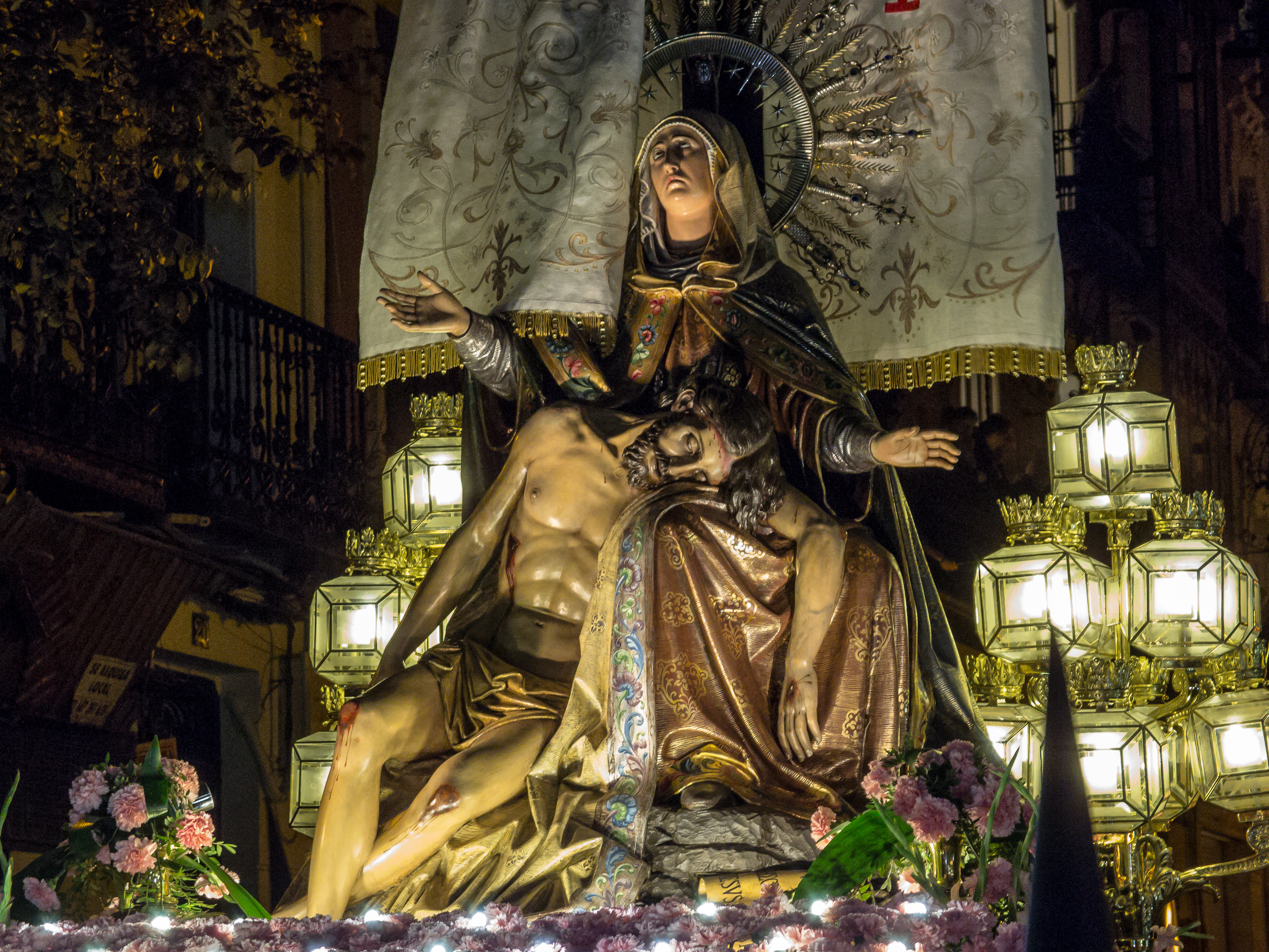 OLYMPUS DIGITAL CAMERA This is a photography of a Folklore festival in Spain (Wikidata id Q9075892).